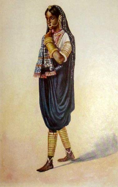 "A Bhil girl," a watercolor by Rao Bahadur M. V. Dhurandhar, 1928; more watercolors from the set: *"A working woman at Ajmere"* *"ABengali lady"* *"A Bhatia lady"* *"A Bhil girl"* *"A Bombay lady"* *"A Borah lady, Surat"* *"Born beside the sacred river"* *"A Brahman lady"* *"From Burmah"* *"Cambay type"* *"A dancer in Mirzapur"* *"A dancer from Tanjore"* *"A widow in the Deccan"* *"A dyer girl, Ahmedabad"* *"A fisherwoman, Sind"* *"A fishwife of Bombay"* *"A denizen of the Western Ghauts"* *"A gipsy woman"* *"A Gond woman"* *"A glimpse at a door in Gujarat"* *"A Gurkha's wife"* *"A Jain nun"* *"A lady from Jodhpur"* *"In the happy valley of Kashmir"* *"A Muslim artisan, Kathiawad"* *"A Khoja lady, Bombay"* *"A Mahar woman"* *"A Marathi lady"* *"A Memon lady walking"* *"A lady from Mewar* *"The milkmaid"* *"A mill hand"* *"A Mussulman lady"* *"A Mussulman nautch-girl"* *"A Mussulman weaver"* *"A lady from Mysore"* *"A Nagar beauty"* *"A Naikin in Kanara"* *"A Nair lady"* *"Parsi fashion"* *"A Pathan woman"* *"A Pathare Prabhu lady"* *"A Rajput lady, Kutch"* (shown above) *"A Southern India type"* *"A sweeper lady"* *"A Toda woman in the Nilgiries"* *"A lady of the United Provinces"* Source: ebay, Aug. 2006